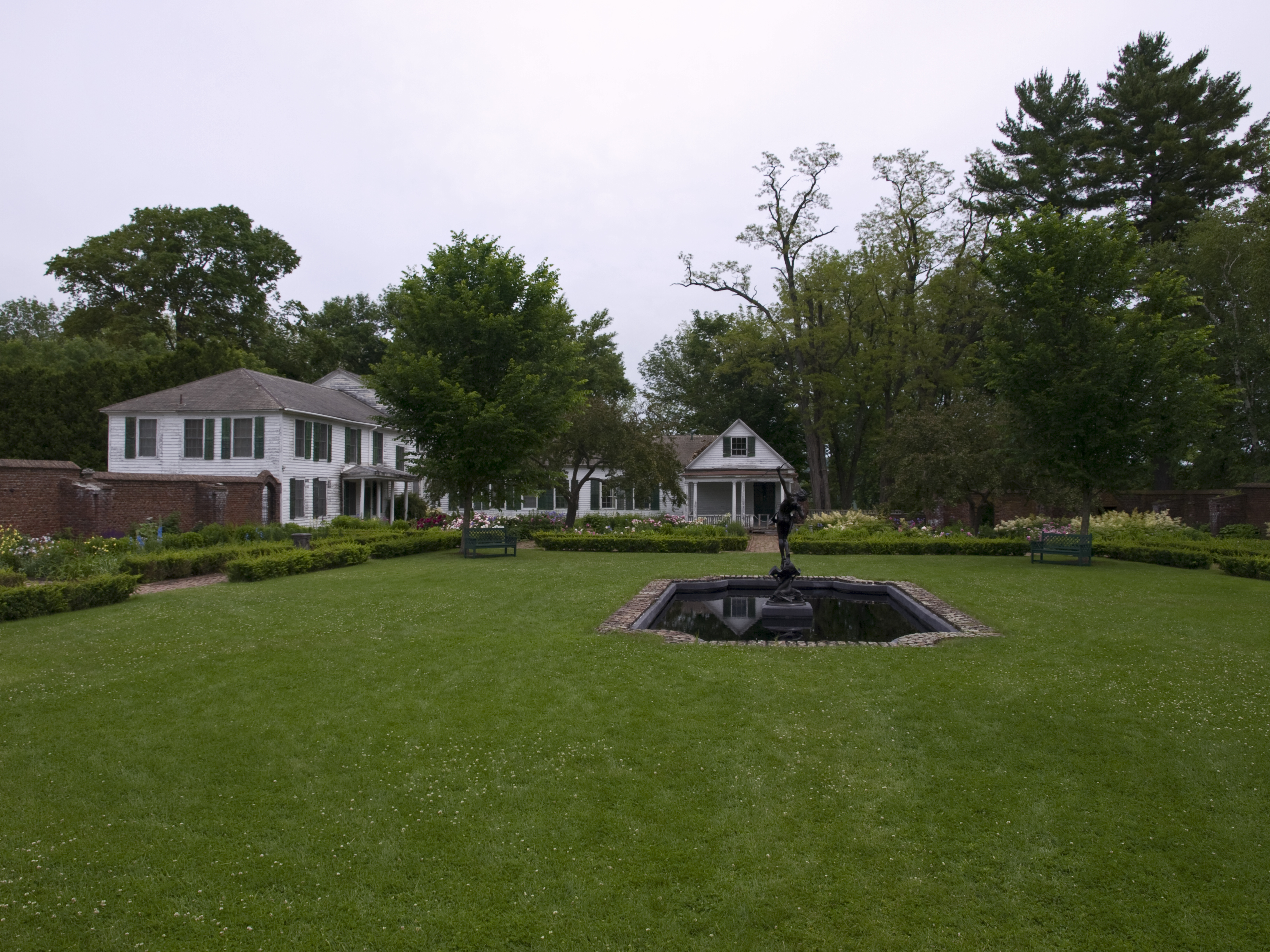 King's Garden, next to Fort Ticonderoga. Designed by Marian Cruger Coffin in 1921.